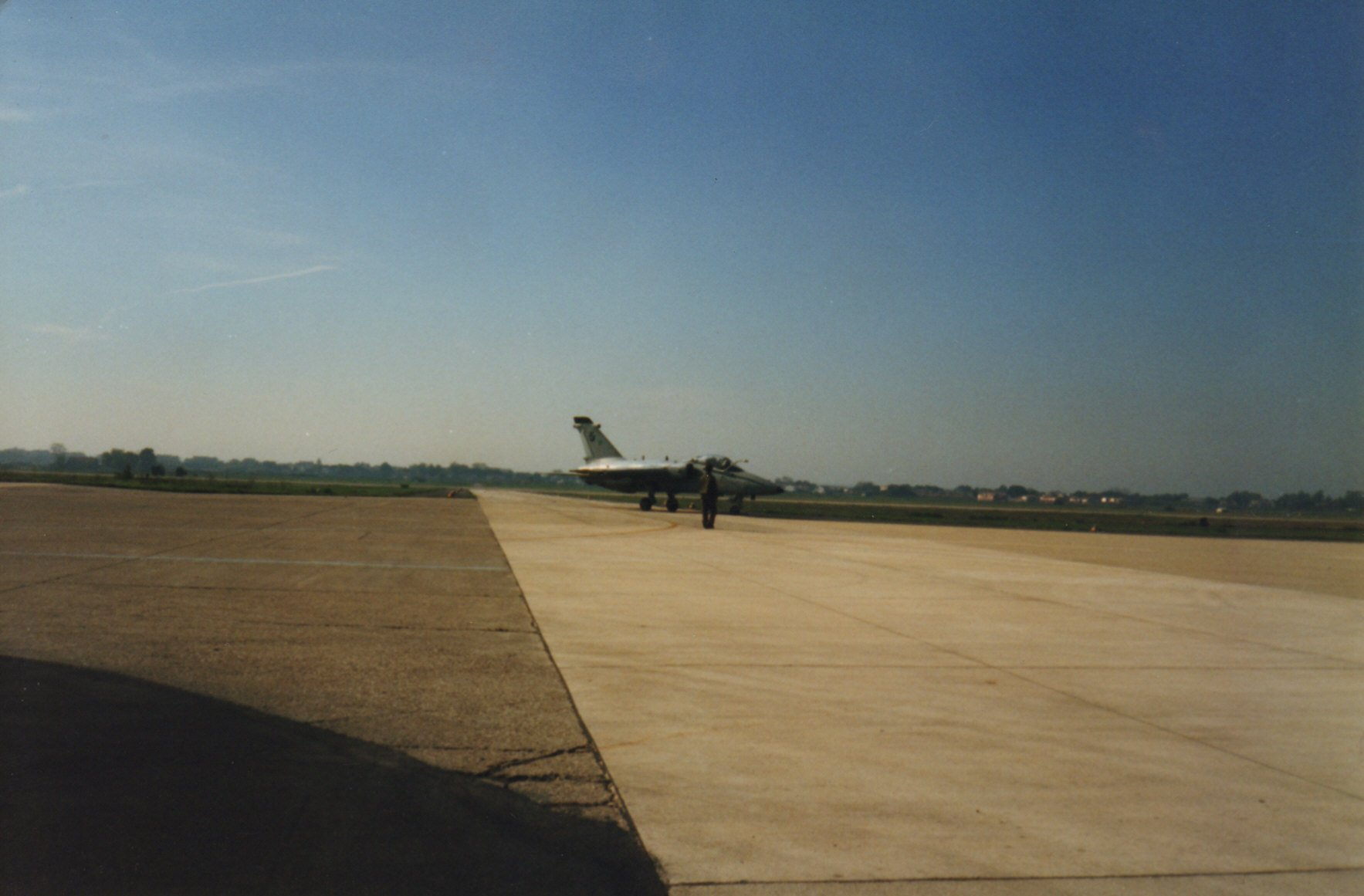 Military airport of Pratica di Mare, Rome (Italy)